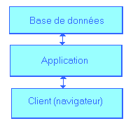 3-tier model